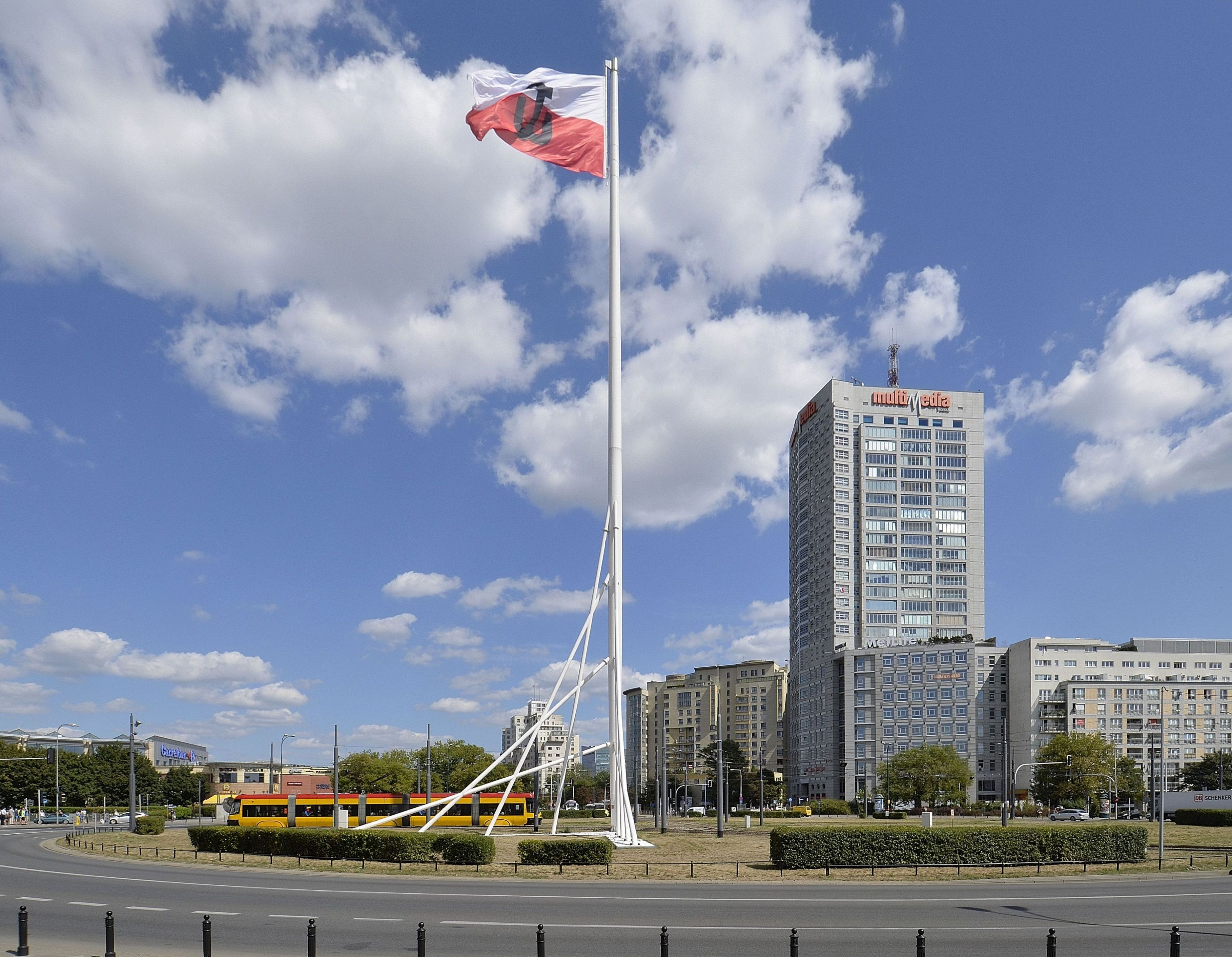 Zgrupowania AK "Radosław" Roundabout in Warsaw